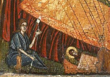 Female spinner spinning a white thread at the cradle of the Virgin. Fragment from the icon "Nativity of the Virgin", Ukraine XVI century